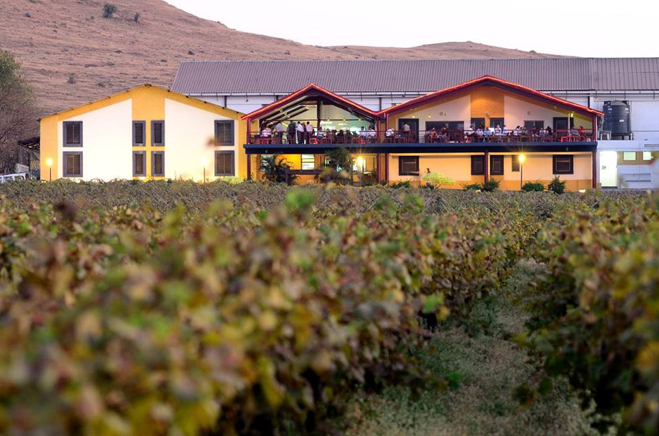 Sula Vineyards